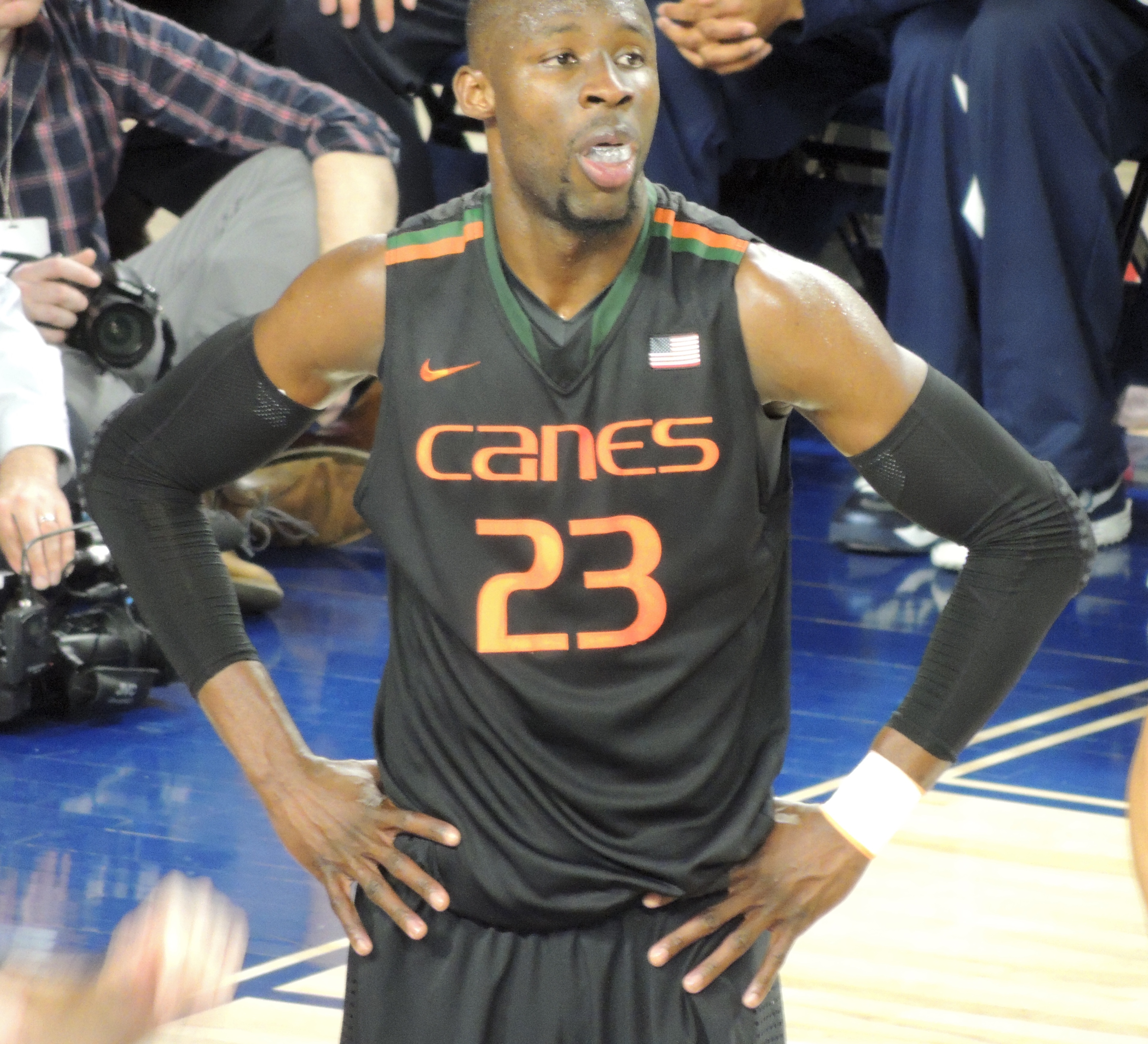 Nigerian basketball player Tonye Jekiri of the University of Miami in a 2015 game at the University of Richmond